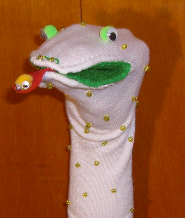 Sockpuppet toad. Cotton sock, pompons, googly eyes, felt, fabric paint, and glass beads. Original design.